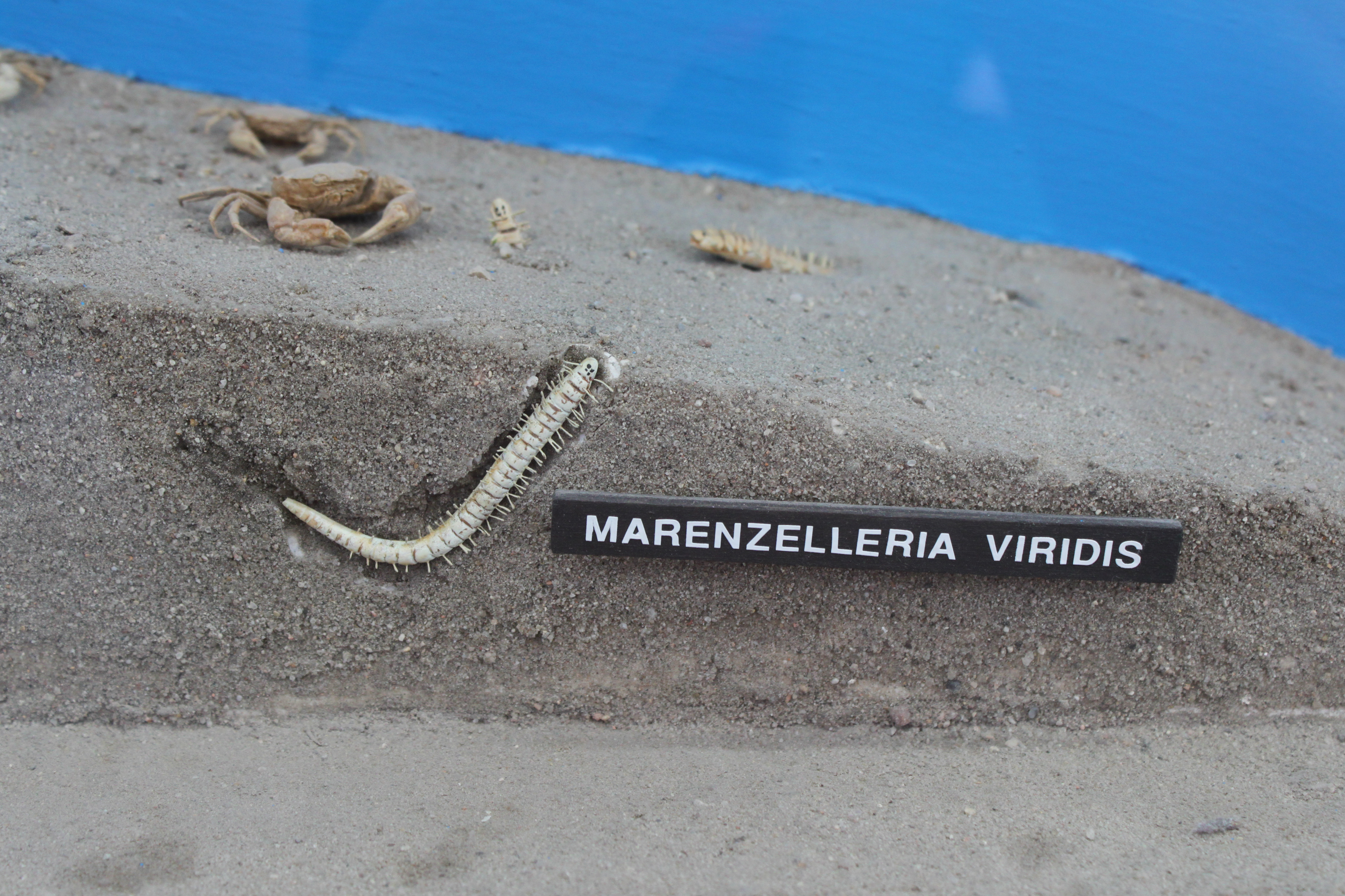 Marenzelleria viridis, Aquarium Gdynia, Gdynia, Poland.